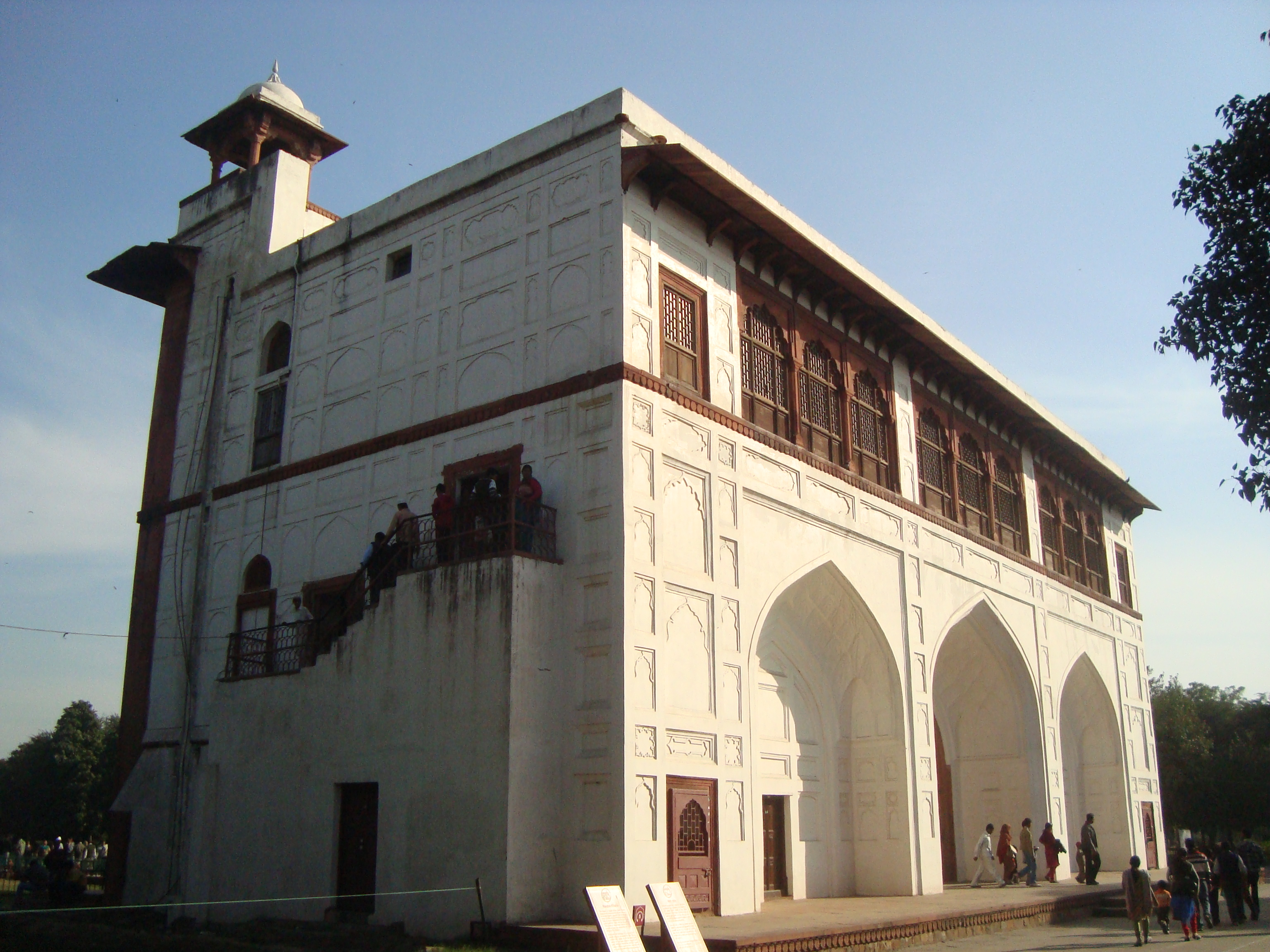 Naubatkhana, Red Fort, Delhi